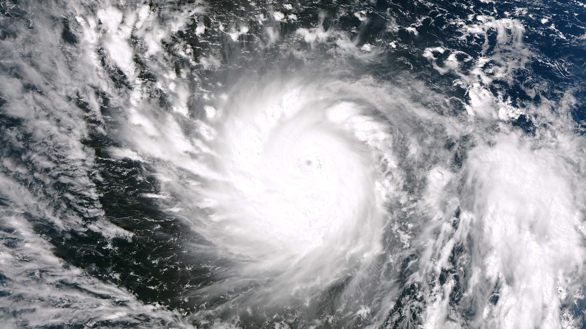 NOAA Environmental Visualization Laboratory – Typhoon warnings are in effects for parts of Palau and Yap as Super Typhoon Haiyan moves west towards the Philippines with maximum sustained winds around 160 mph. The Suomi NPP satellite passed over the storm at 02:25 UTC on November 6, 2013, capturing this image with the VIIRS instrument. The storm is expected to intensify slightly before it makes initial landfall on Friday, November the 8th. After passing over the Philippines, Haiyan is then expected to continue heading west towards Vietnam.